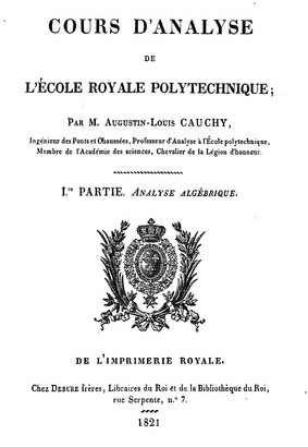 Title page of textbook by Cauchy. First published in 1897 by Académie des sciences (France), Ministère de l'éducation nationale, Paris, Gauthier-Villars. November 2007 scan made by from book held by University of California Libraries, Call #: 117719294 003 002.[1]